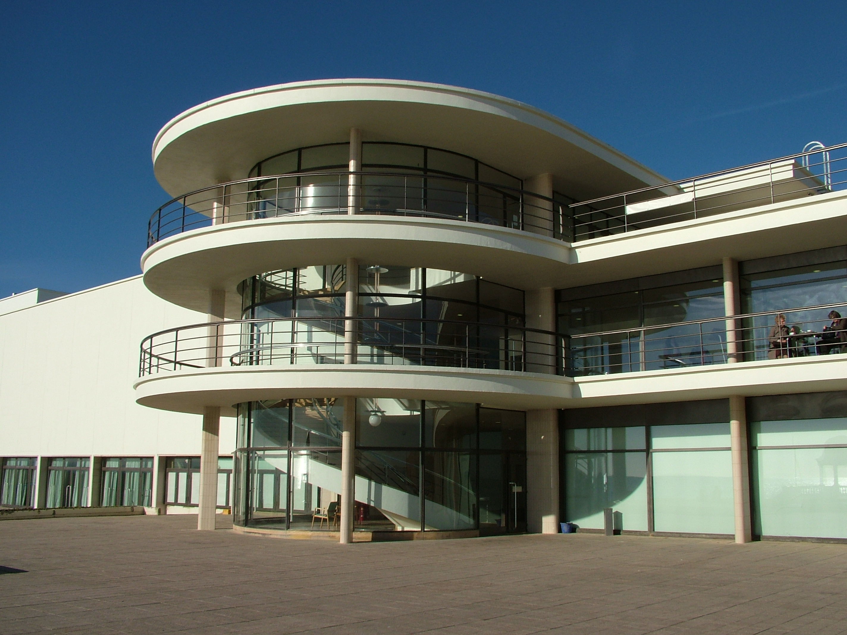 The De La Warr Pavilion In Bexhill